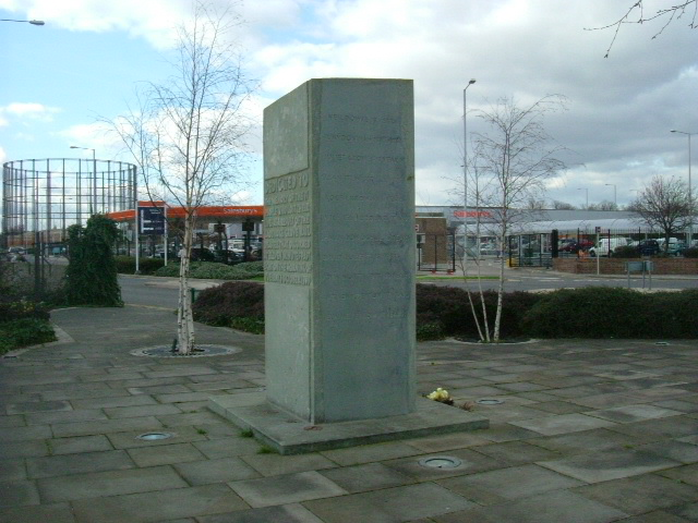 Ladbroke Grove rail crash memorial commemorating the 31 people who died near this spot in October 1999.